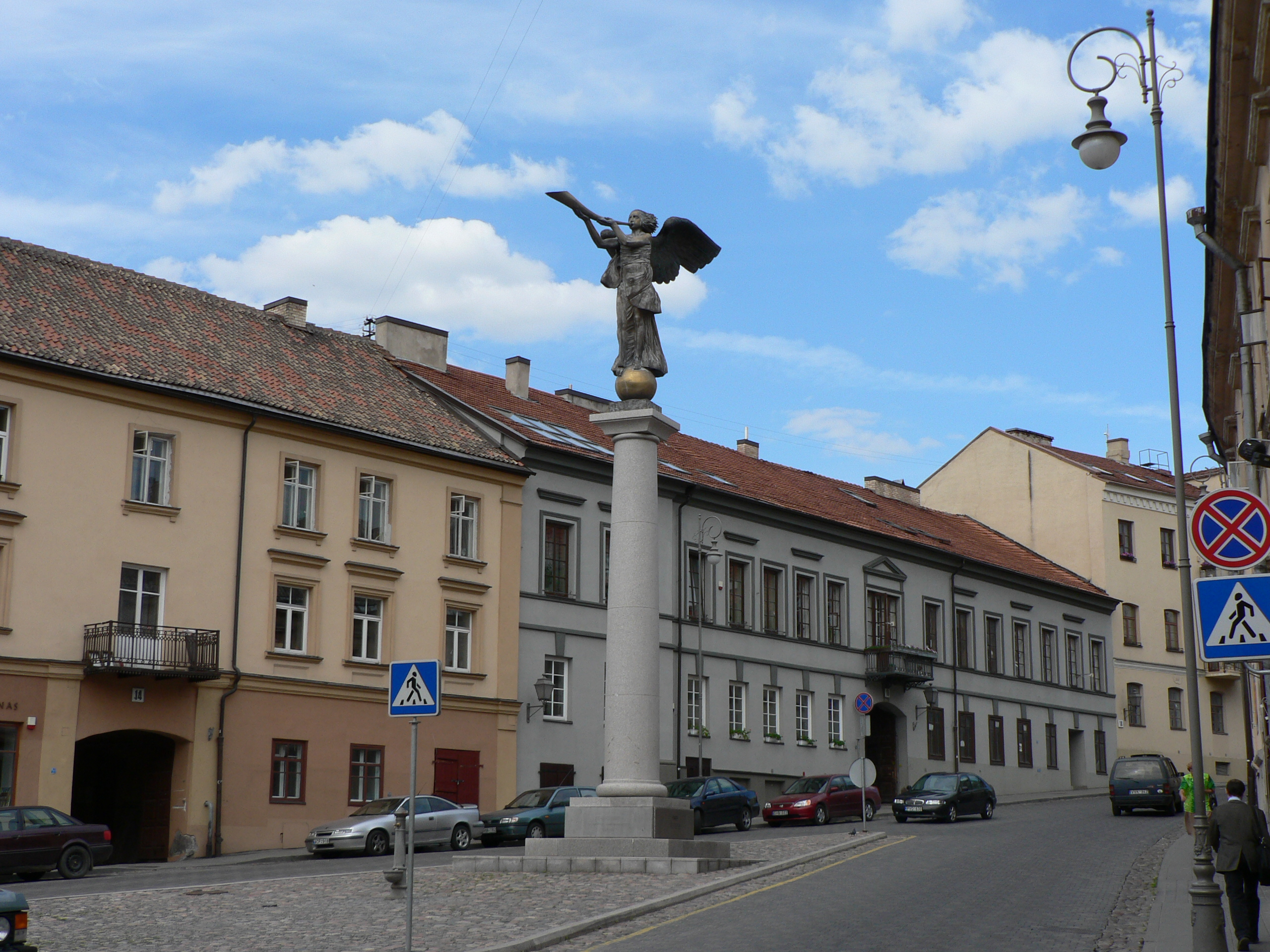 Author: Wojsyl, 2005